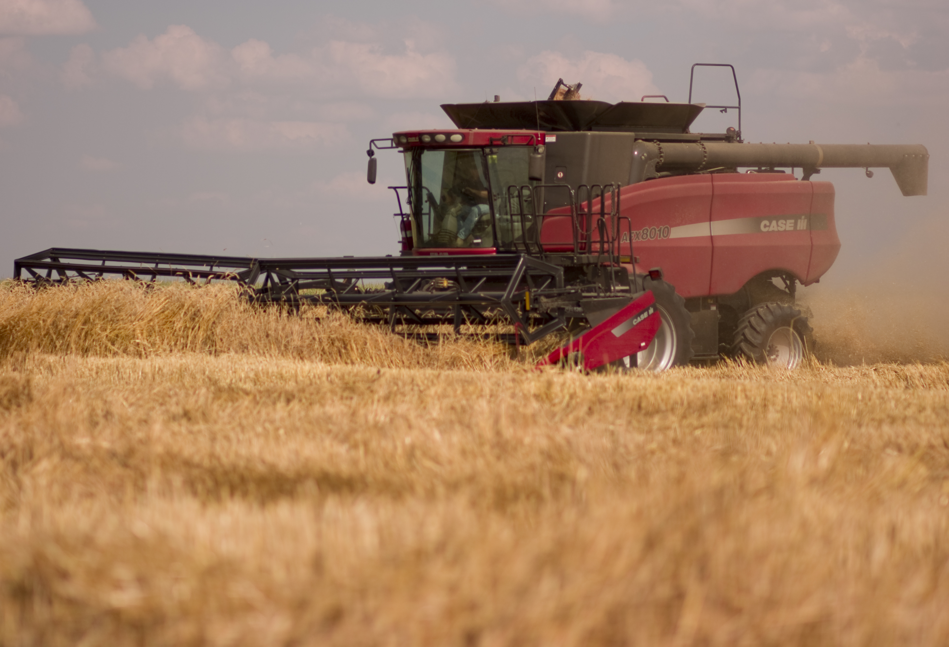 A Case IH AFX 8010 combine harvester